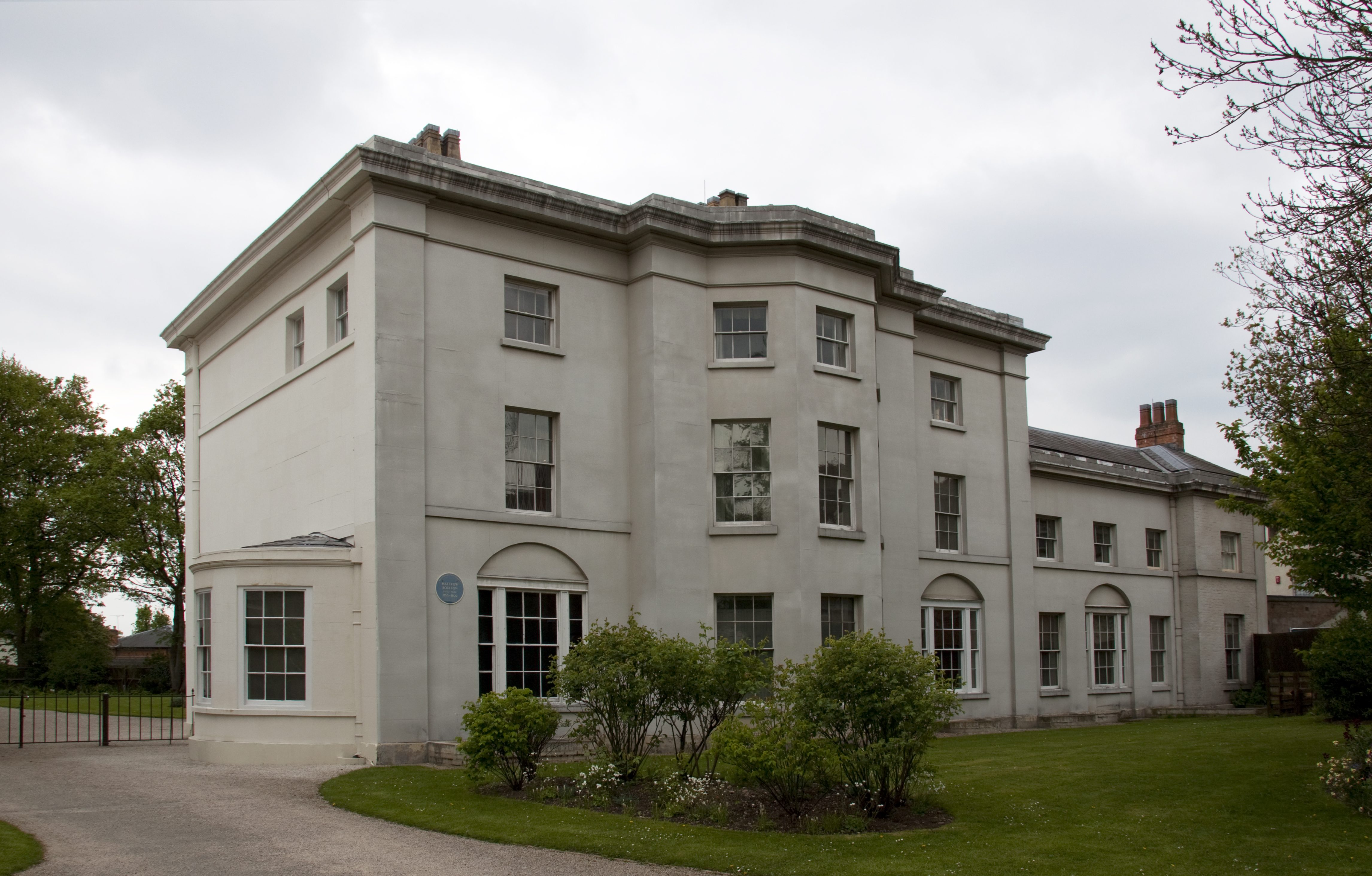 Soho House, Handsworth, Birmingham, England. Soho House is not only important as Matthew Boultons house but it was also the meeting place for the Lunar society. Some of the thinkers and inventors included James Watt, Erasmus Darwin, Josiah Wedgwood and Joseph Priestley.